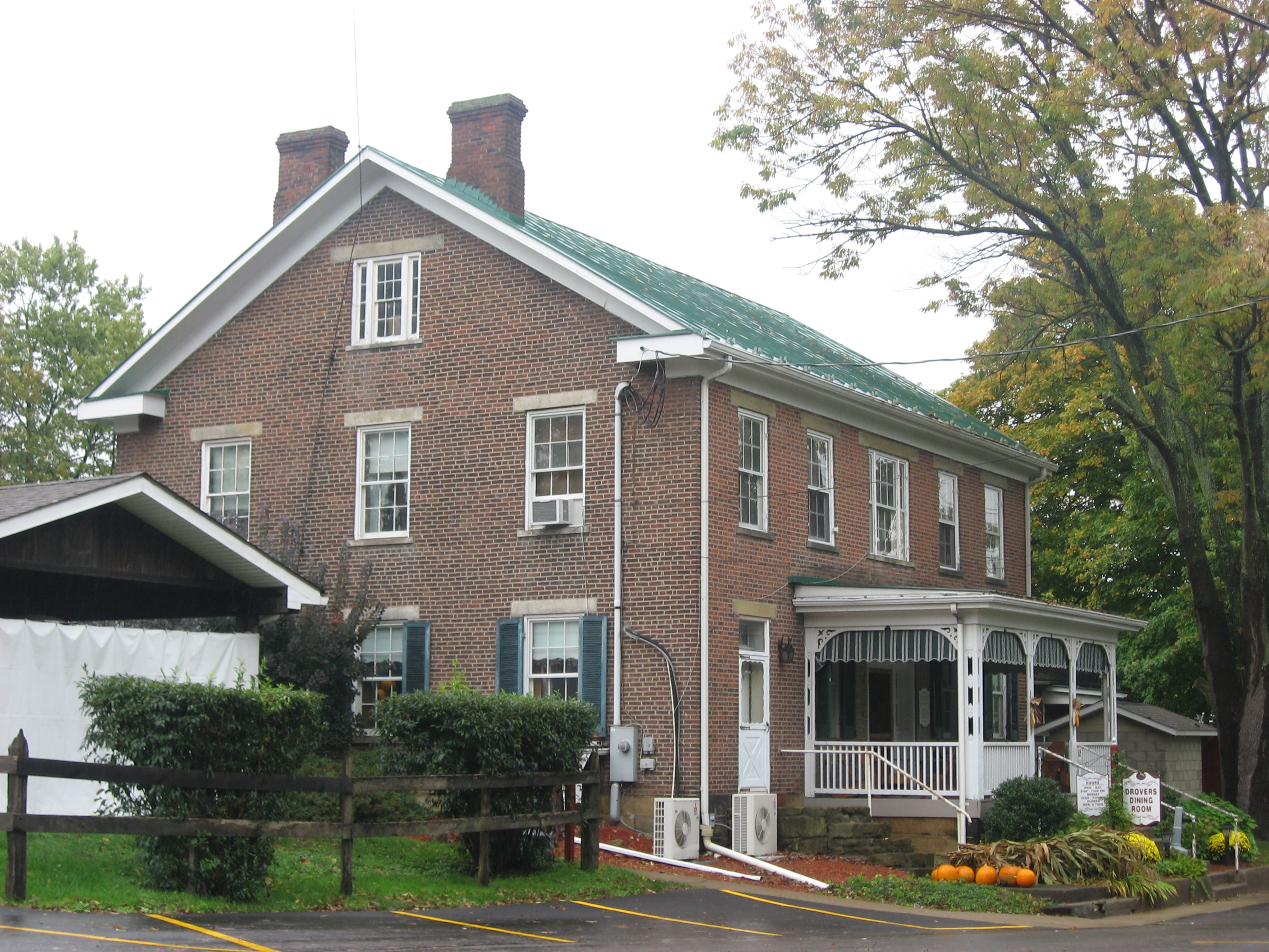 Front and northwestern side of the Inn at Fowlerstown, located at 1001 Washington Pike just east of Wellsburg in Brooke County, West Virginia, United States. Built in 1851, it is listed on the National Register of Historic Places.